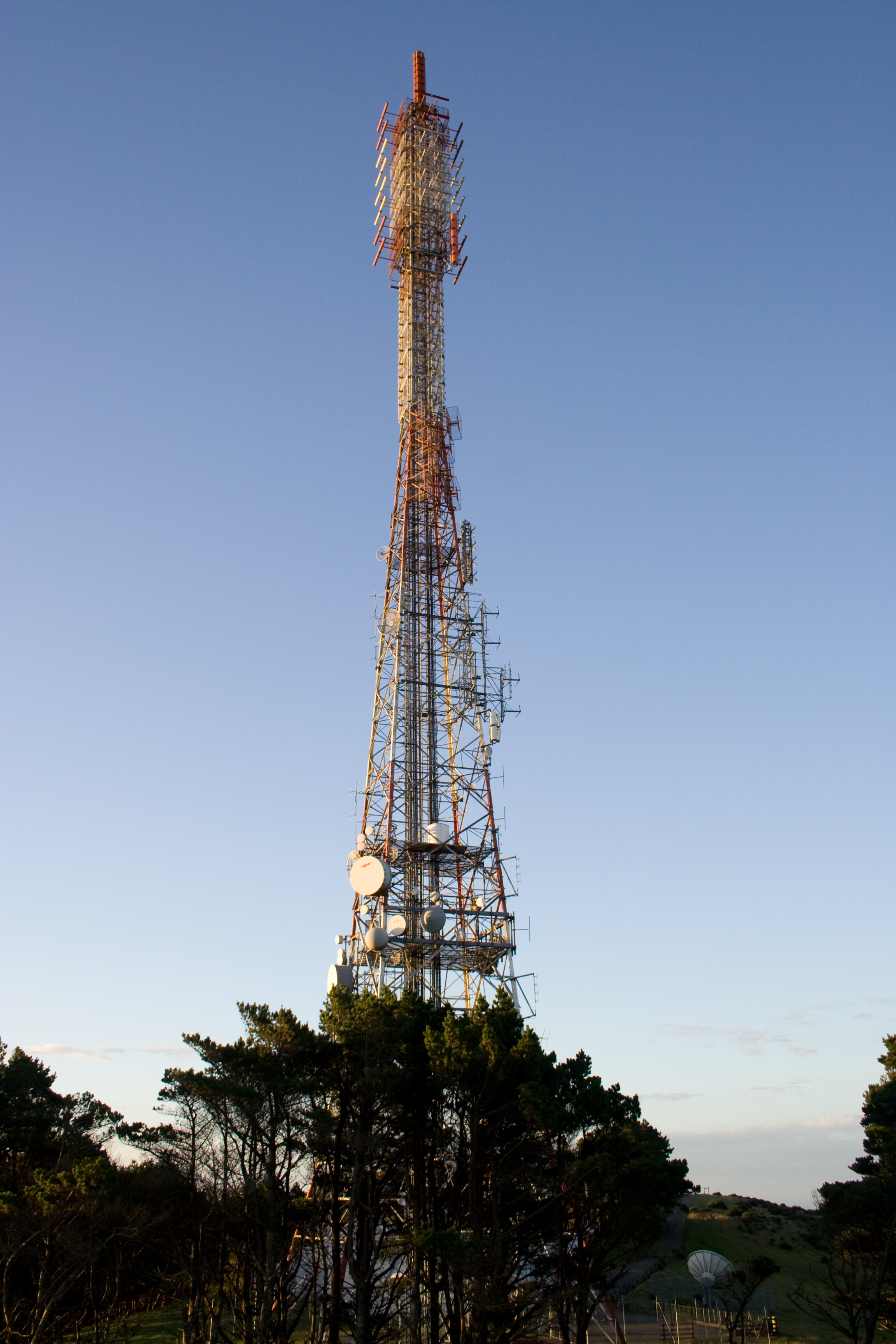 122 metres (400 feet) high. This is Wellington's main TV transmission tower.